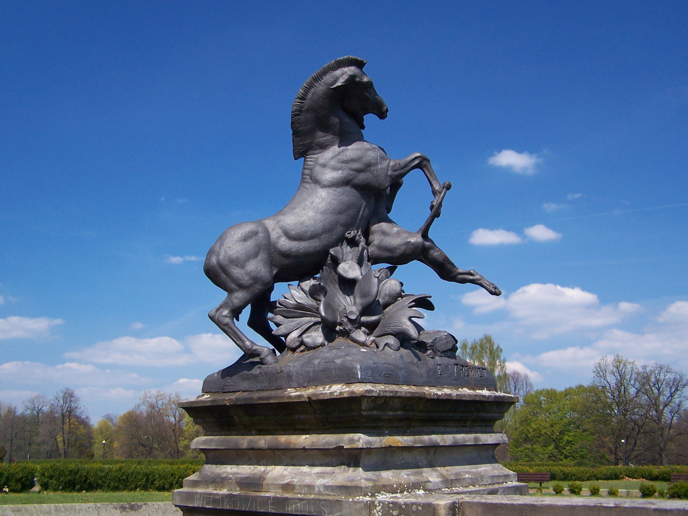 A sculpture made by Emmanuel Frémiet in the 19th century. It stands in the park of Świerklaniec (Poland).